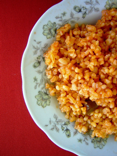 A plate of dish made of bulgur